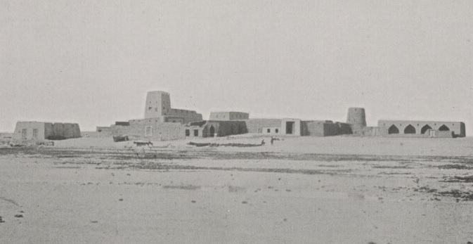 This volume is Volume II of the Gazetteer of the Persian Gulf , ’Omān and Central Arabia (Government of India: 1908) compiled by John Gordon Lorimer. The volume is a geographical dictionary with a series of alphabetically arranged articles relating to the physical and political conditions of the Persian Gulf and its surrounding areas. Originally published in the British Library: India Office Records and Private Papers, obtained from the Qatar Digital Library.